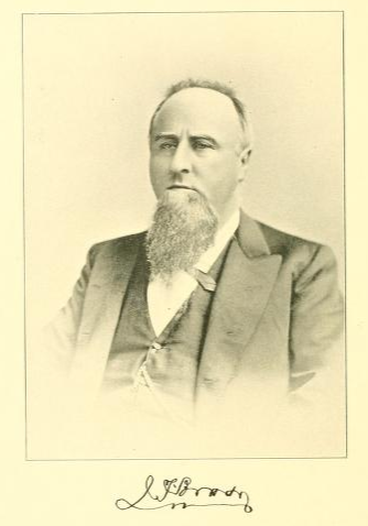 Daguerretype of John Thomas Brady found in book published in 1895.